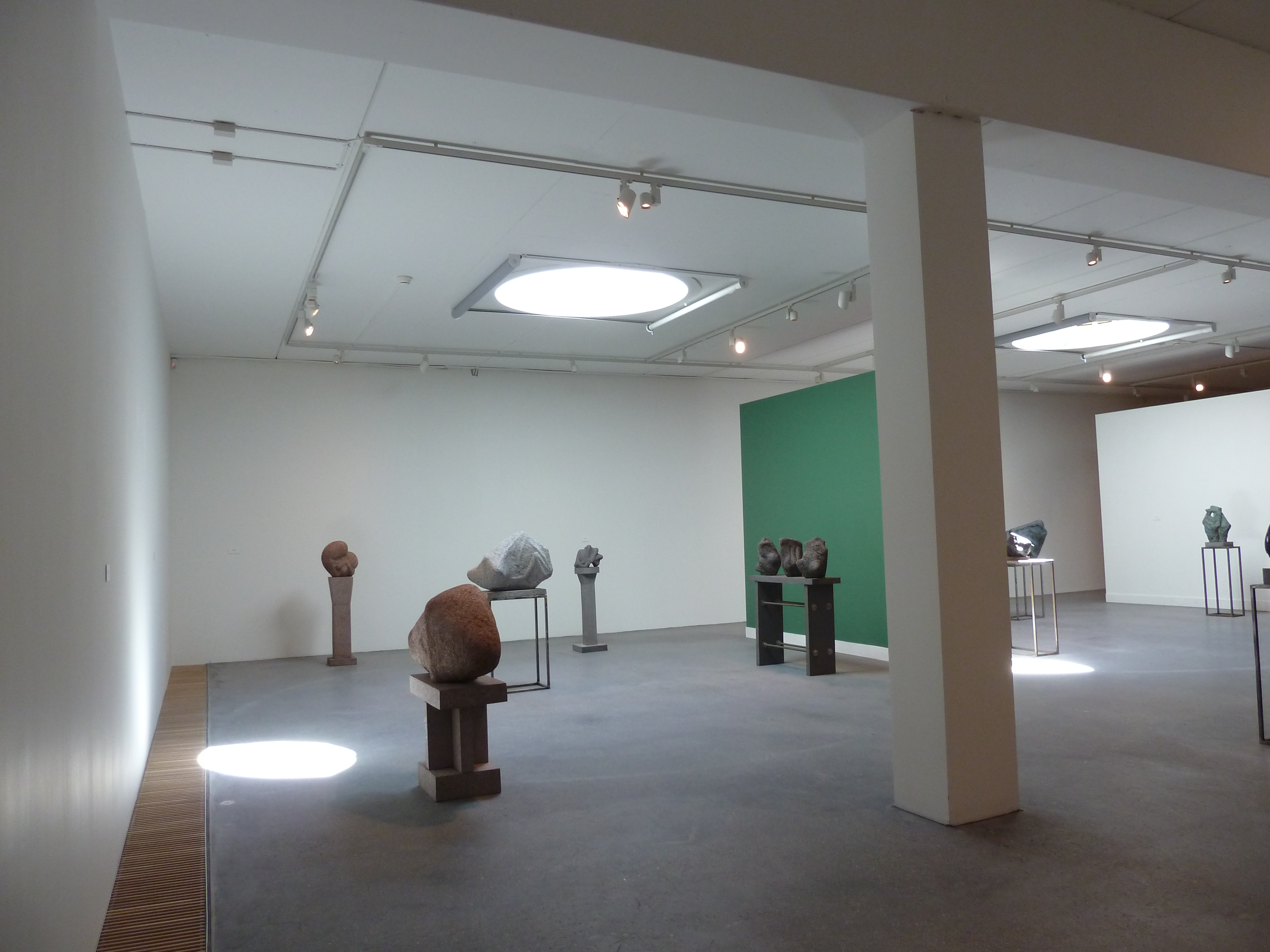 The underground gallery at Sorø Art Museum in Sorø, Denmark